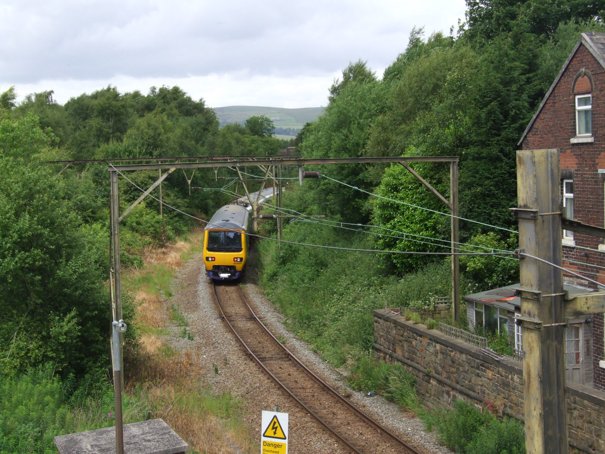 Dinting is near Glossop, Derbyshire. It is known for the railway junction and viaduct, and Dinting Vale Printworks. 323225 EMU leaving Glossop for Hadfield via Dinting Junction. At Higher Dinting - Google Maps - Google Earth